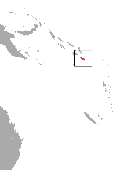 Makira Flying Fox (Pteropus cognatus) range